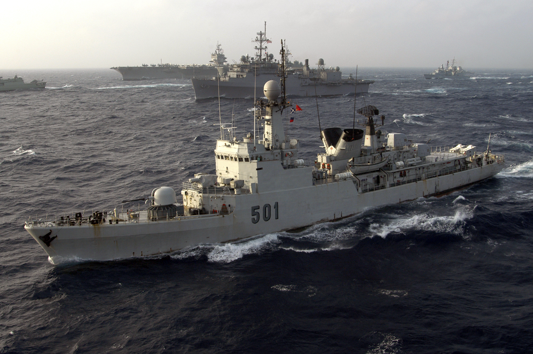 Atlantic Ocean (July 12, 2004) — The Moroccan frigate RMNS Lieutenant Colonel Errhamani (F501), USS La Salle (AGF-3), USS Enterprise (CVN-65) and the German frigate FGS Niedersachsen (F-208) steam through the Atlantic Ocean while participating in Majestic Eagle 2004. Majestic Eagle is a multinational exercise being conducted off the coast of Morocco. The exercise demonstrates the combined force capabilities and quick response times of the participating naval, air, undersea and surface warfare groups. Countries involved in the NATO led exercise include the United Kingdom, Morocco, France, Italy, Portugal, Spain, and Turkey. Truman’s participation in Majestic Eagle is part of her scheduled deployment supporting the Navy’s new fleet response plan (FRP) Summer Pulse 2004, the simultaneous deployment of seven carrier strike groups (CSGs), demonstrating the ability of the Navy to provide credible combat across the globe, in five theaters with other U.S., allied, and coalition military forces.